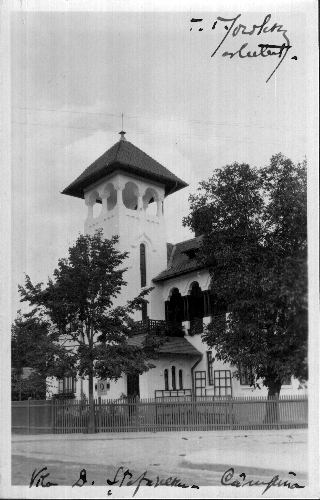 Villa of D. Stefănescu, Câmpina, Romania. Architect: Toma T. Socolescu. This villa is located at boulevard Carol I, nr 112, in Câmpina, Judeţul Prahova, Romania. We are the only heirs and descendants of Toma T. Socolescu (died in 1960 in Bucharest) and therefore owner of all his intellectual rights.